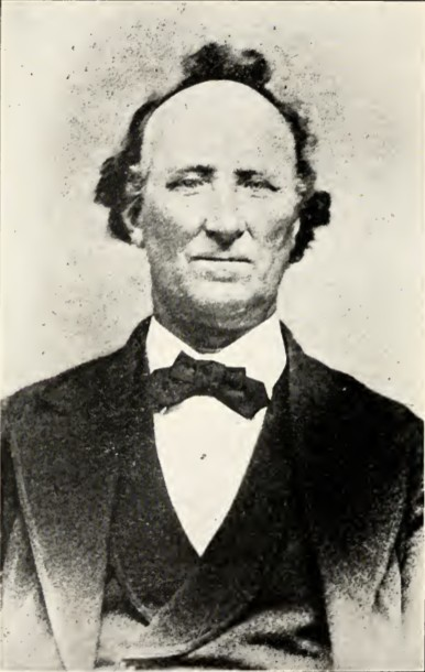 Photo of Aaron Hall, "The lion hunter of the Juniata", slayer of 50 Pennsylvania Panthers Between 1845 and 1869.